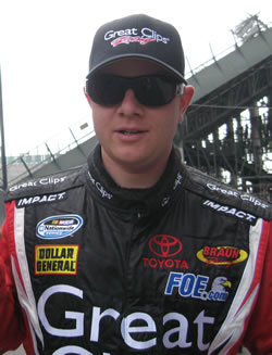 Jason Leffler posing with a fan at the 2008 NASCAR Nationwide Series event at Mexico City